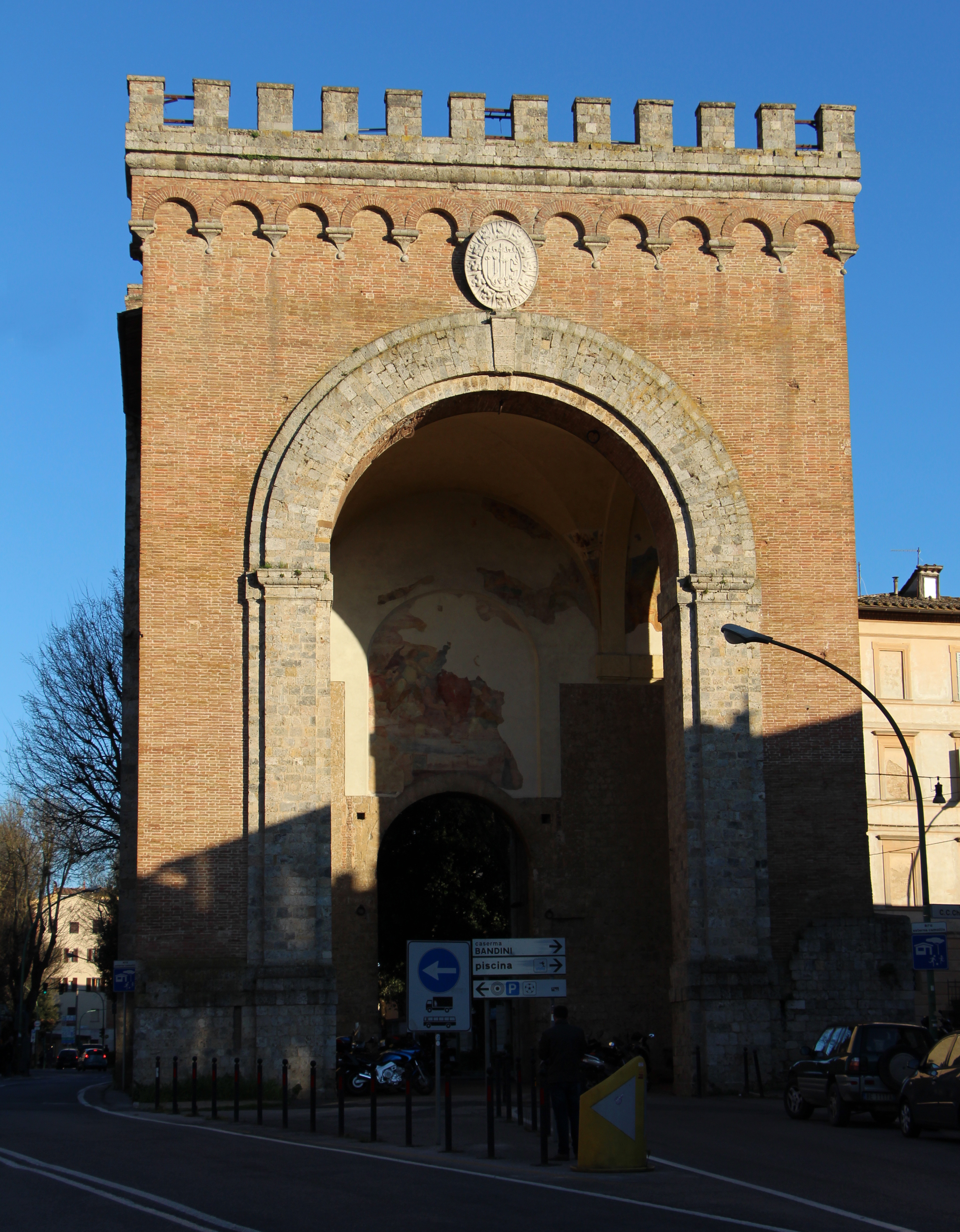 City gates in Siena